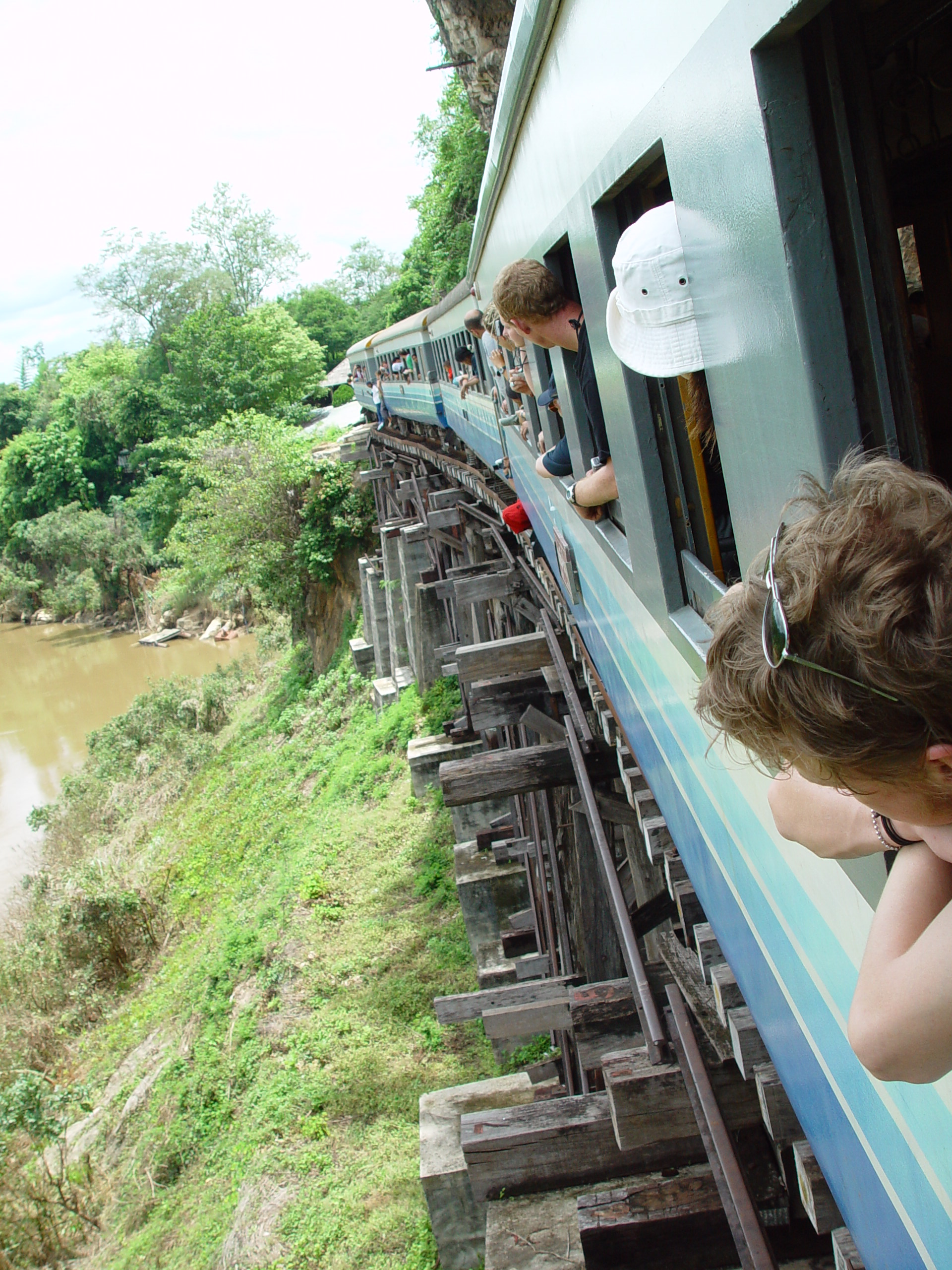 Death Railway, dangerous bridge I have taken this photo myself in mid 2004 with my own Sony DSC-707. See EXIF record for details